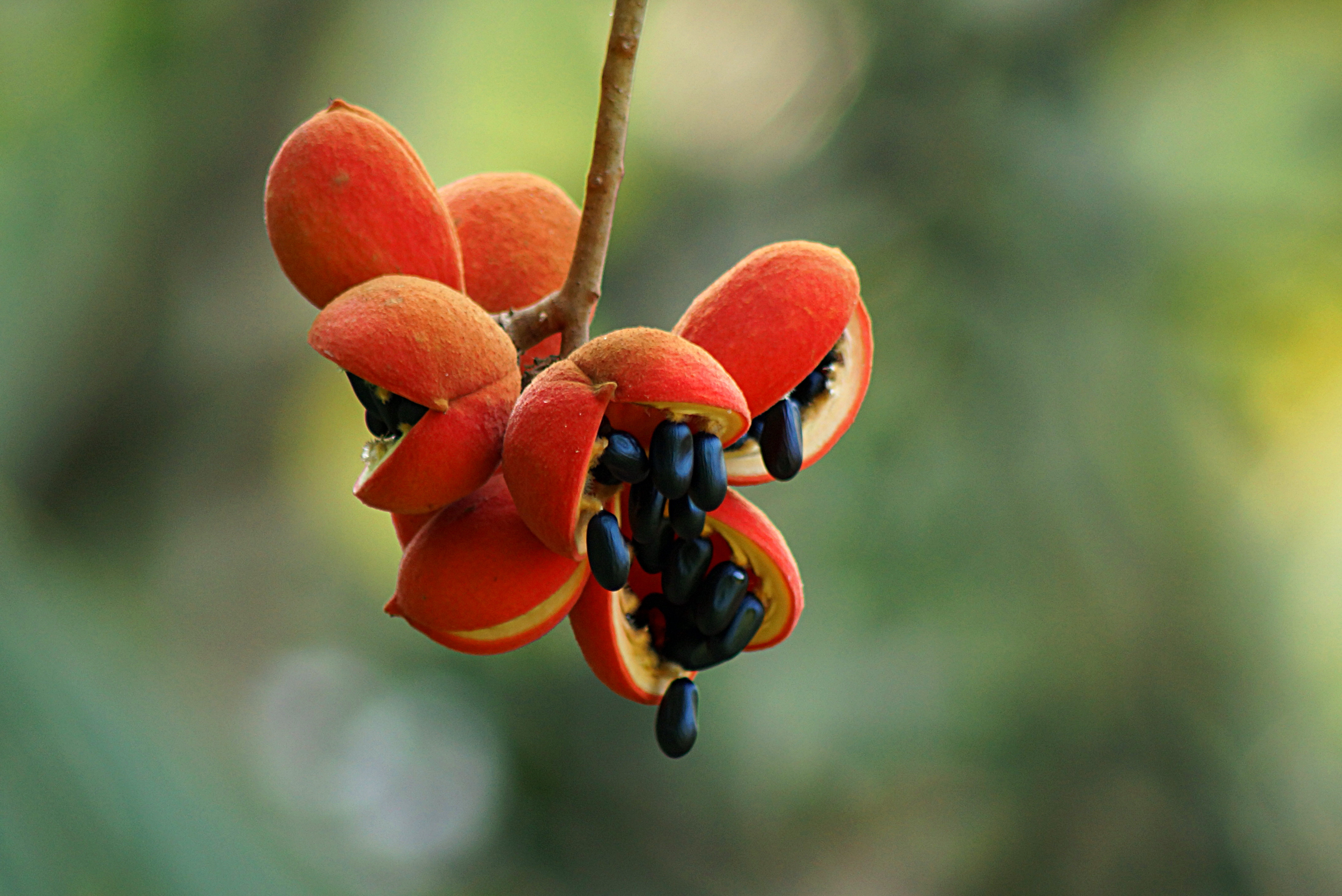 Spotted Sterculia